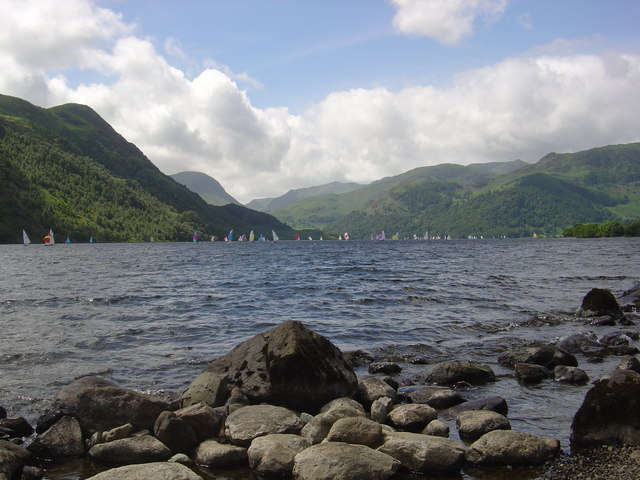 Sailing on Ullswater, a lake in the Lake District, Cumbria county, England.